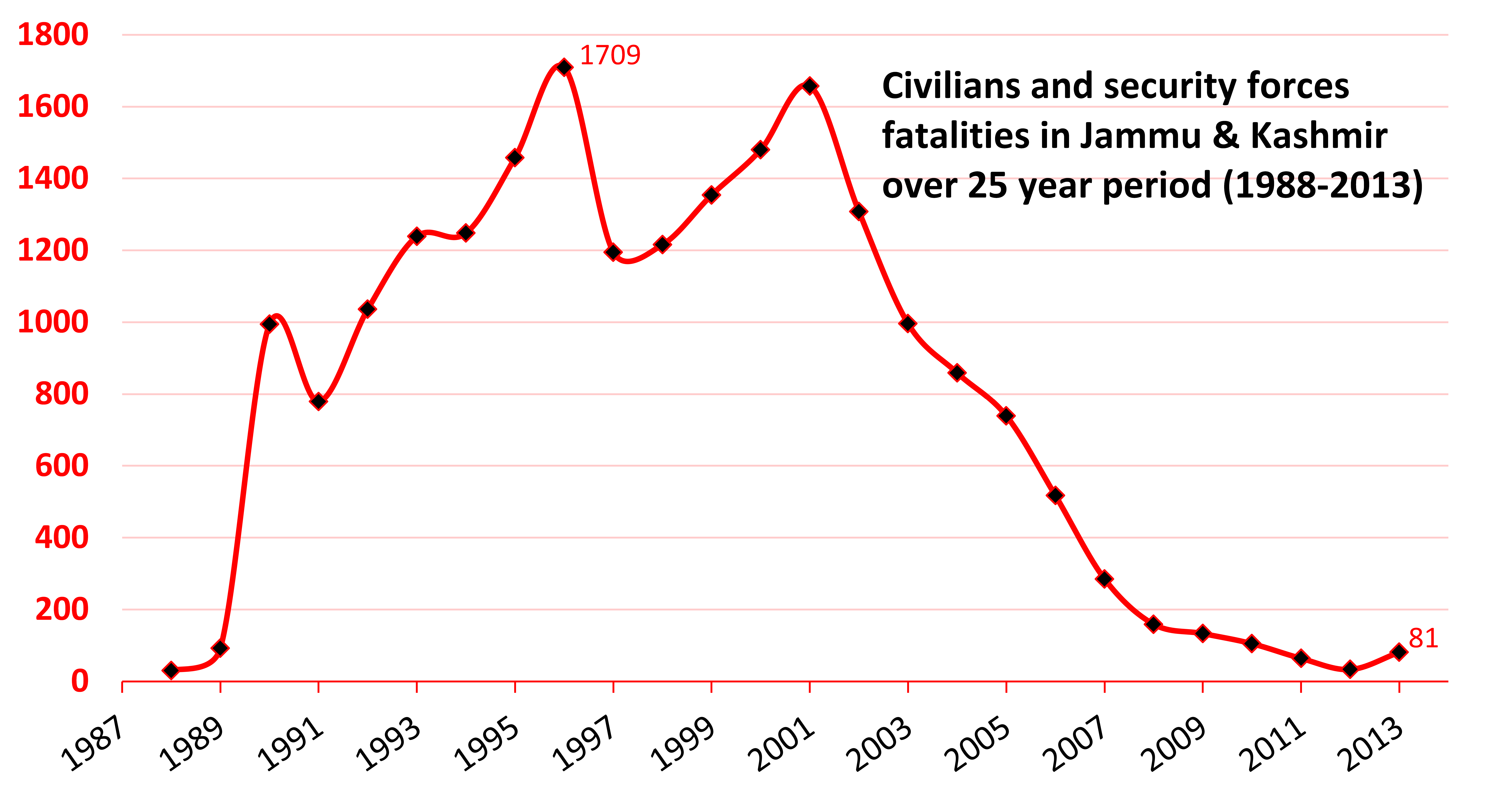 Militant terror and insurgency-related violence has killed over 20,000 civilians and security forces in Jammu & Kashmir in 25 years. This chart shows the trends in total civilian and security forces deaths per year over 25 years from 1988 to 2013. The peak in deaths occurred in 1996 (1709 deaths) and a second peak occurred in 2001 (1657 deaths). In 2013, 81 civilians and security force personnel died from the militant terror / insurgency. Source: Fatalities in Terrorist Violence 1988 - 2014, Jammu & Kashmir Data, South Asian Terrorism, SATP (cited by United Nations)